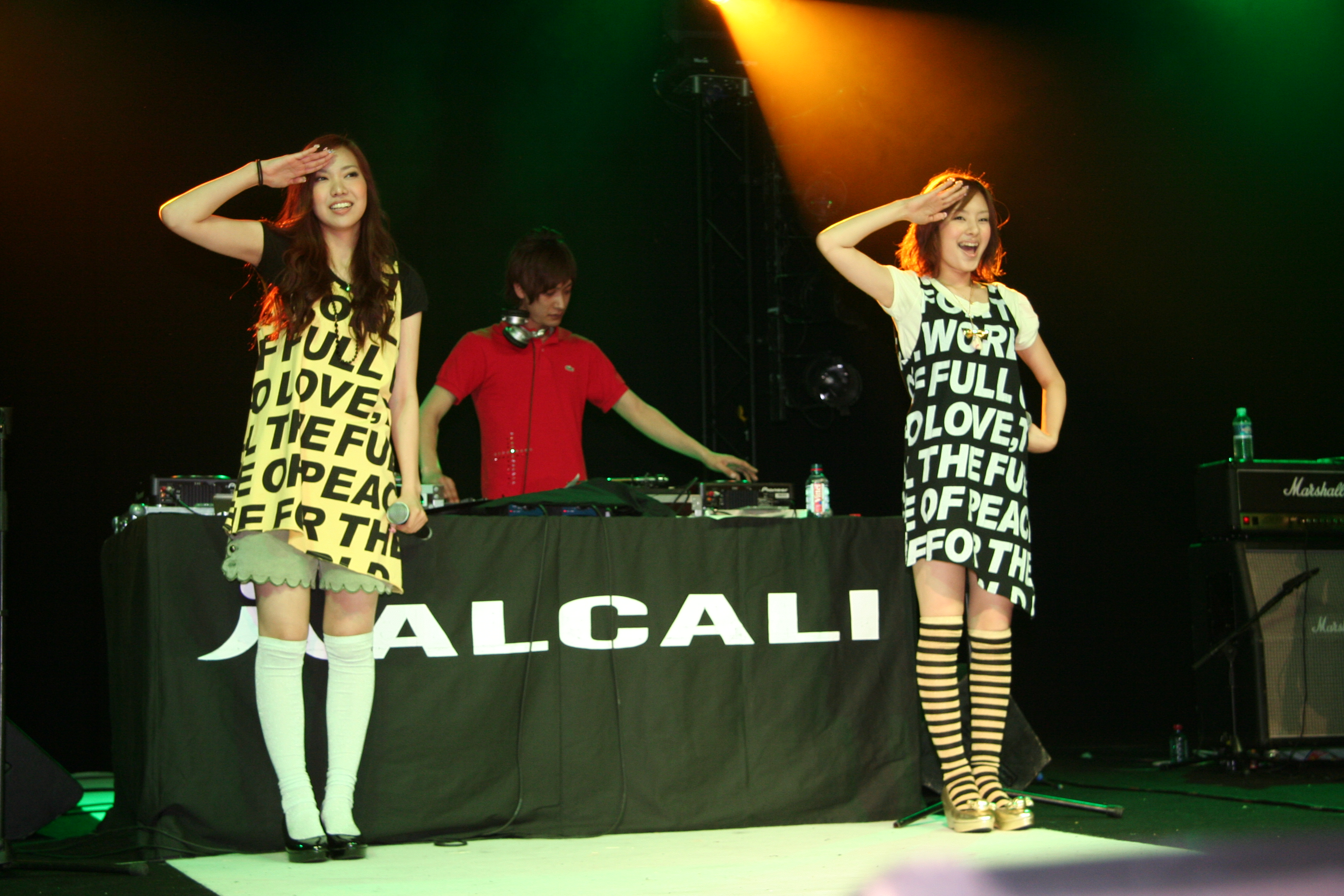 Halcali live at Japan Expo 2007 (Paris, France).